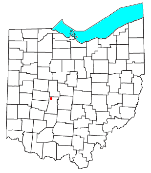 Locator map of the unincorporated community of Rosedale in Madison County, Ohio, United States.